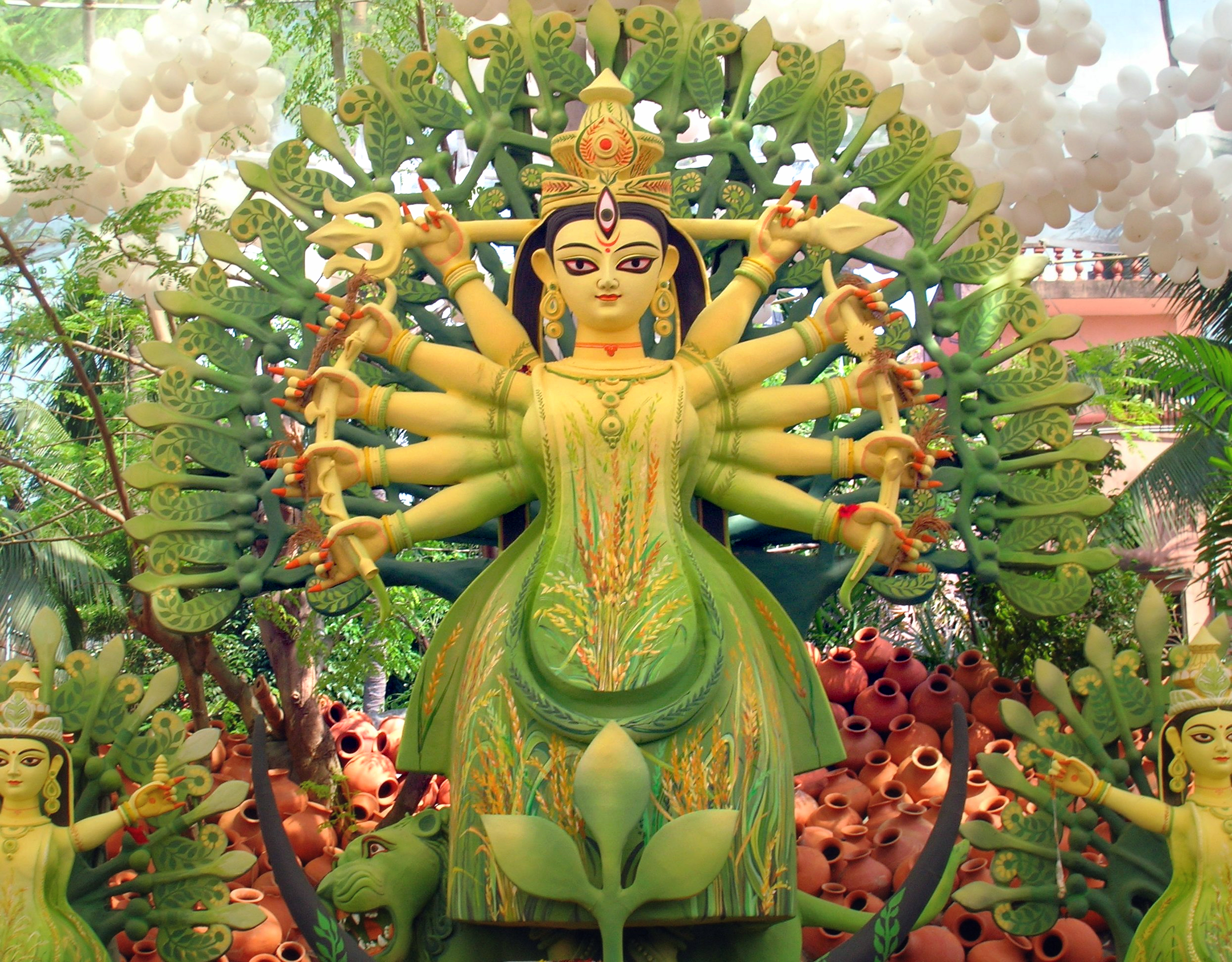 An artistic depiction of Durga focusing environmental awareness (day view) at Barisha Club, Kolkata, 2010.